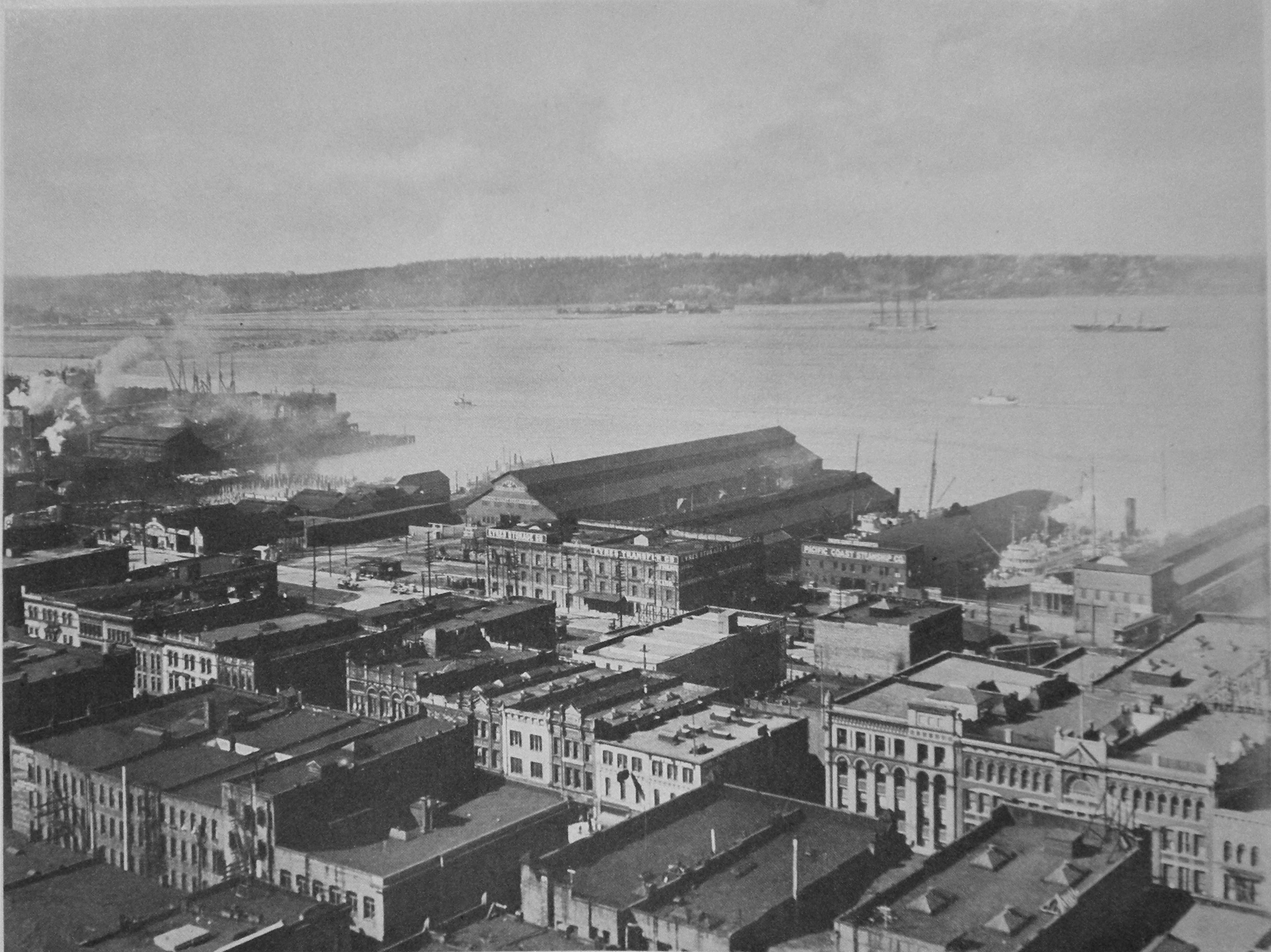 Ocean Dock and environs, Seattle, Washington, 1916. Seen from the Smith Tower at the corner of Second and Yesler. Elliott Bay and West Seattle in the distance. The three docks of the Pacific Coast Steamer Company stood between Jackson and Washington Streets.